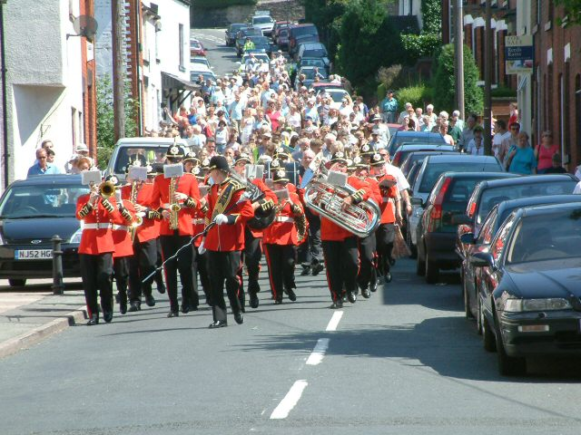 Gee Cross Well Dressing 2003 The Adamson Band leading the procession for the 2003 Gee Cross Well Dressing Ceremony marching down Joel Lane.